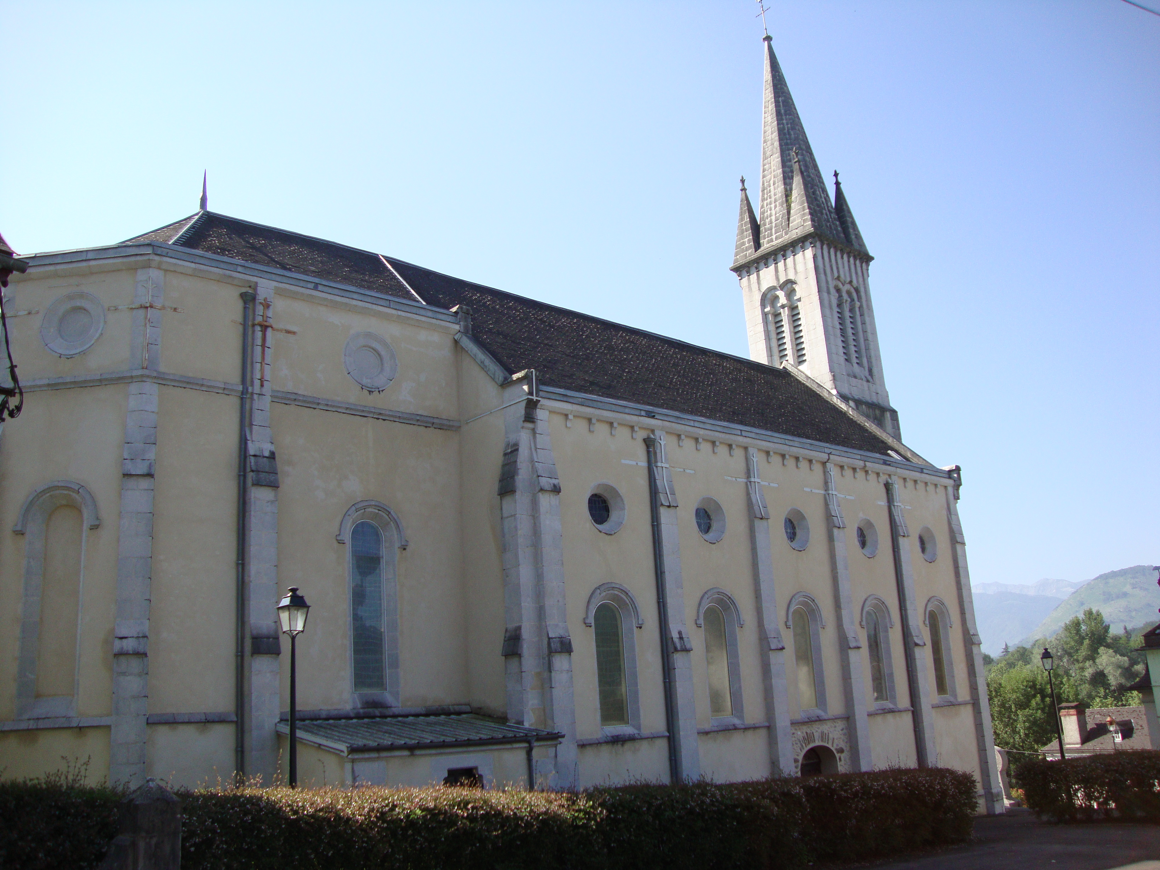 Tardets-Sorholus (Pyr-Atl, Fr) L'église